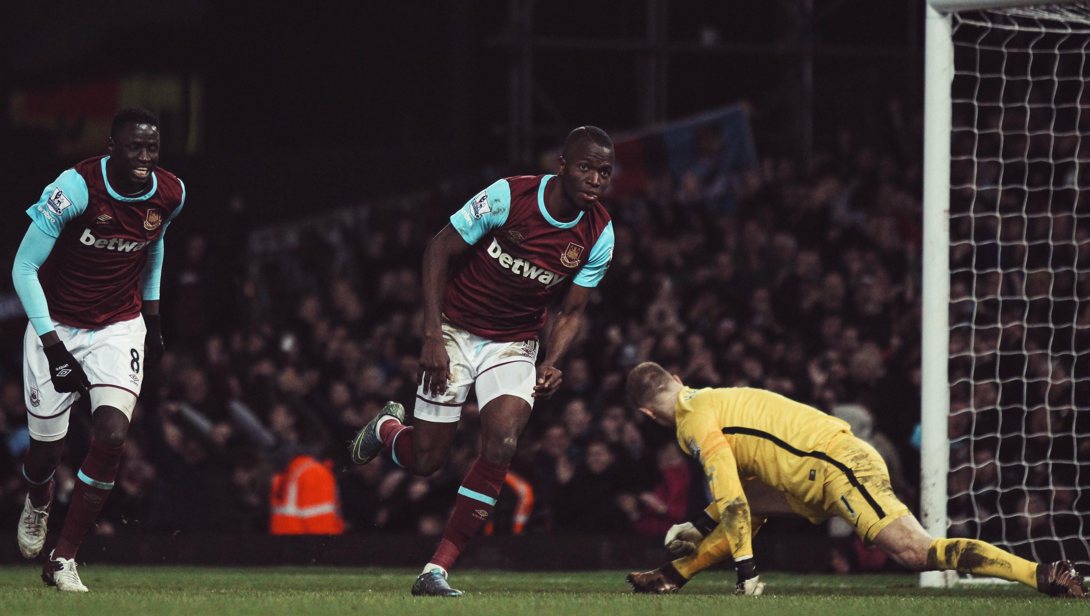 Enner Valencia of West Ham celebrates his second goal during the game against Manchester City.